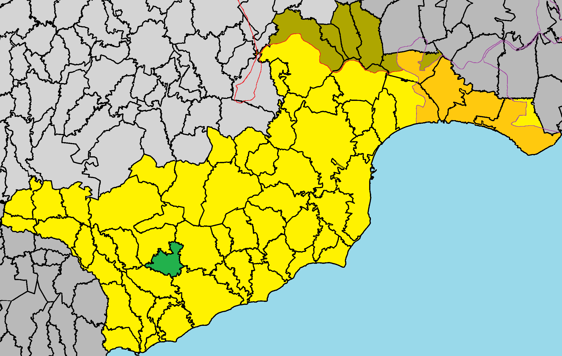 Skarinou in Larnaca District.